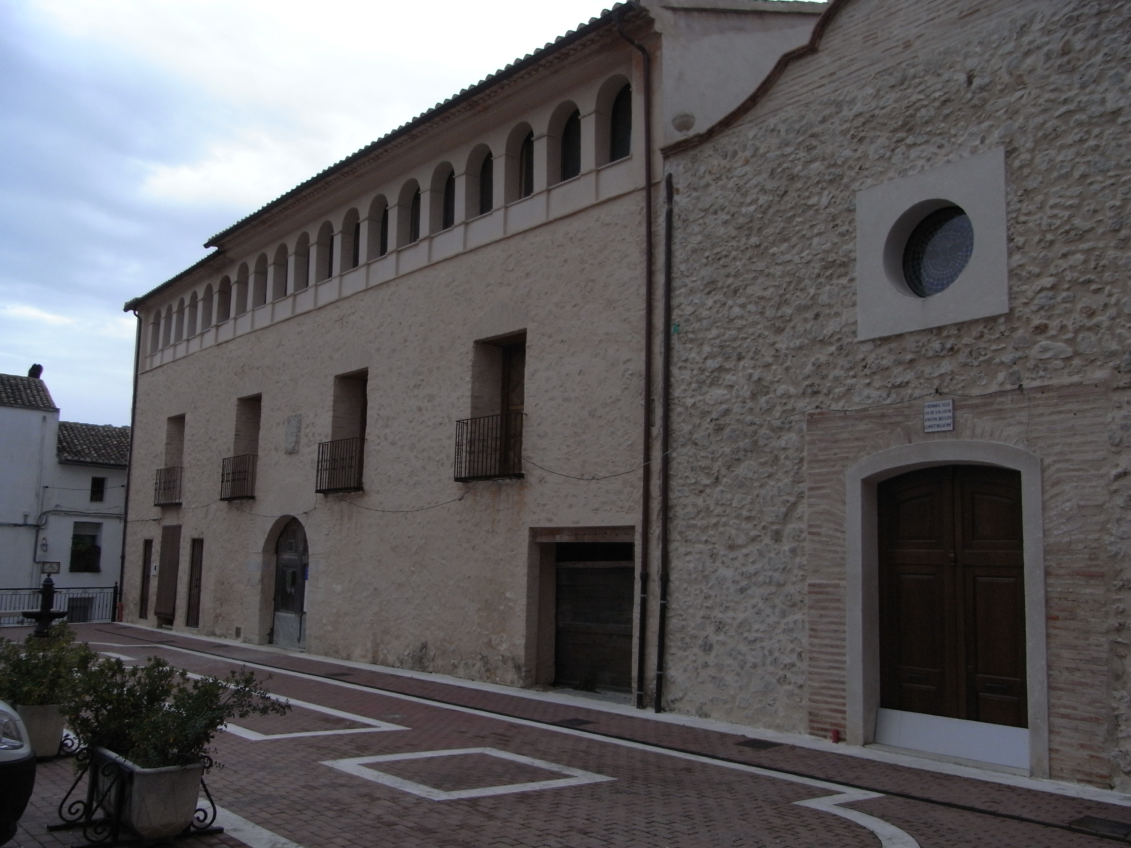 Palacio de los Marqueses de Almúnia.